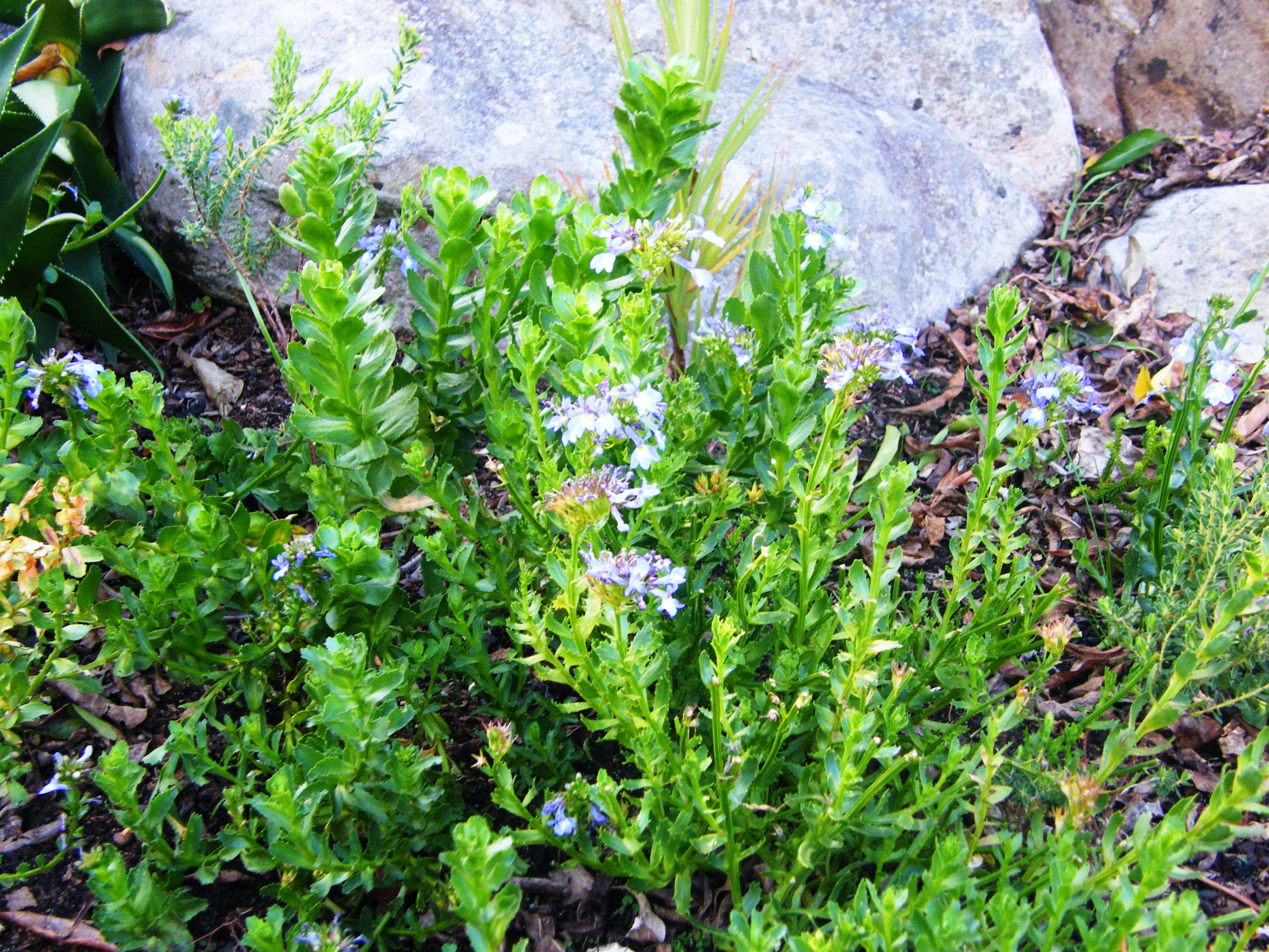 Galjoen flower